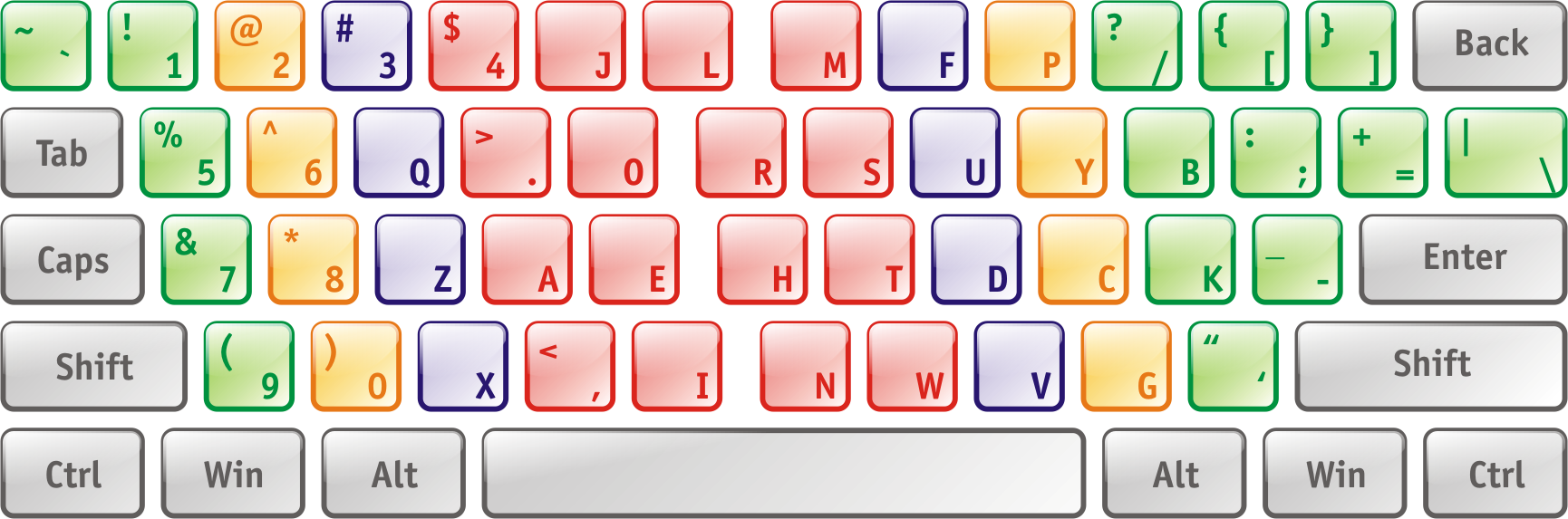 Dvorak Layout for right hand